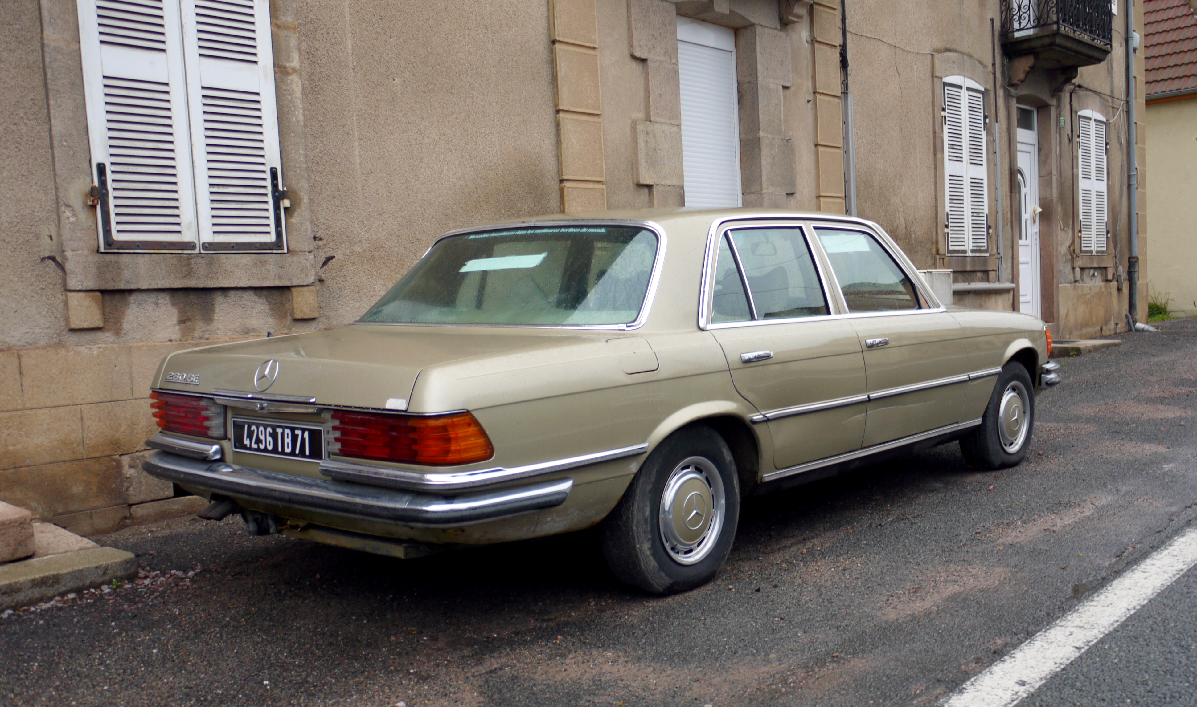 Mercedes Benz 280 SE - for sale: I was very tempted... veeery tempted...!